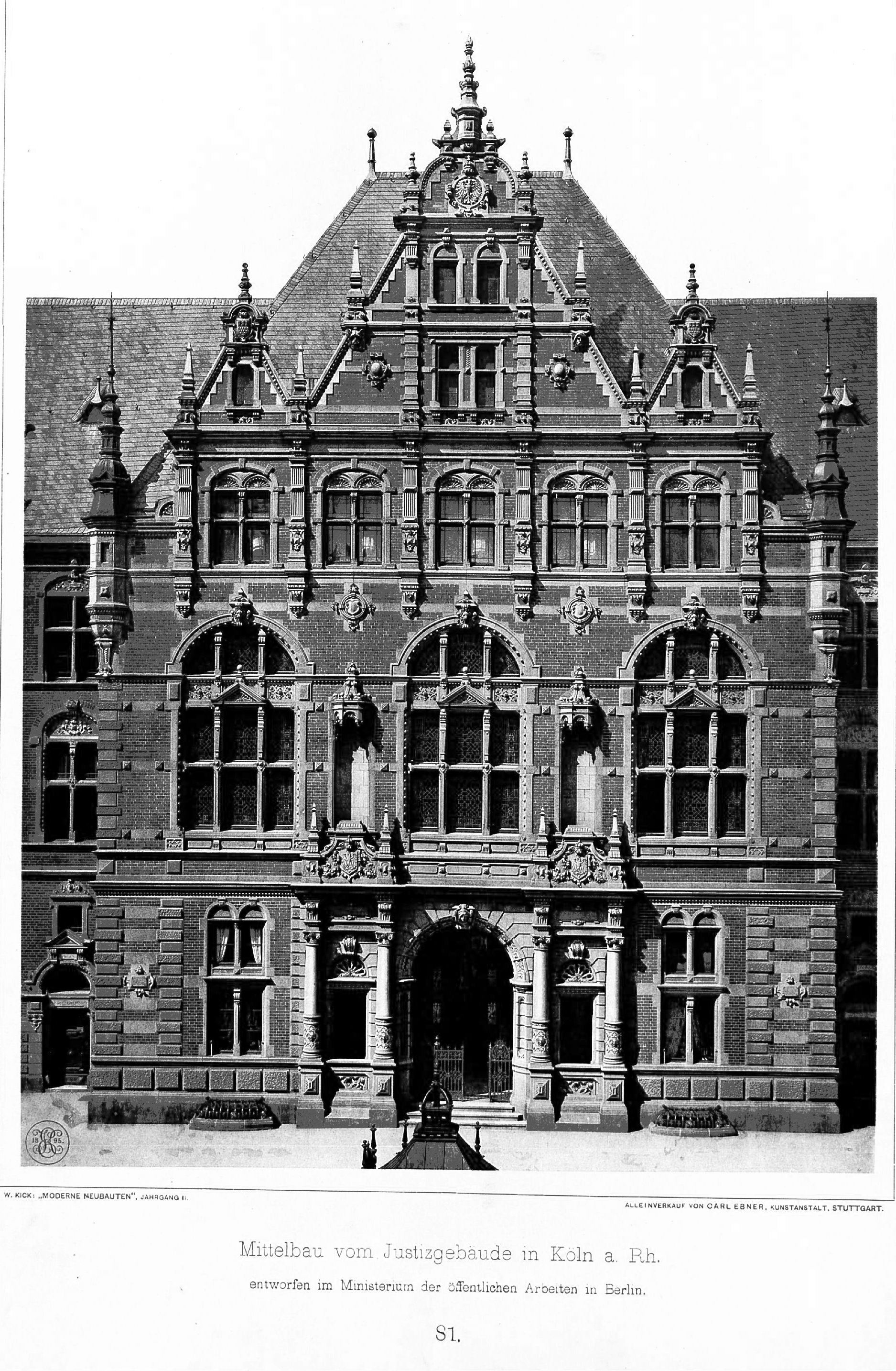 Justizgebäude_Köln,_Entwurf_Ministerium_der_öffentl._Arbeiten_Berlin,_Tafel_81,_Kick_Jahrgang_II.jpg